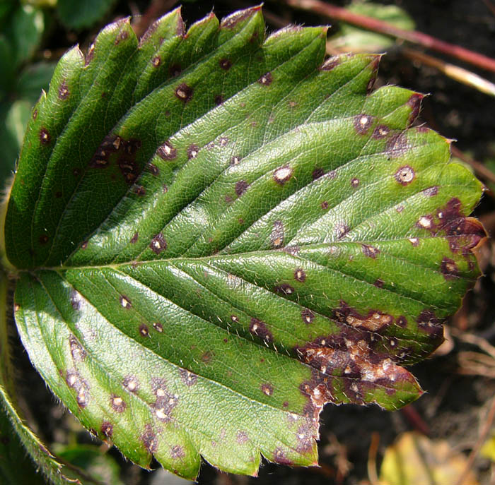 Mycosphaerella fragariae on strawberry. Locality: Czech Republic, Moravia, Olomouc - Bělidla. October 17 2004.